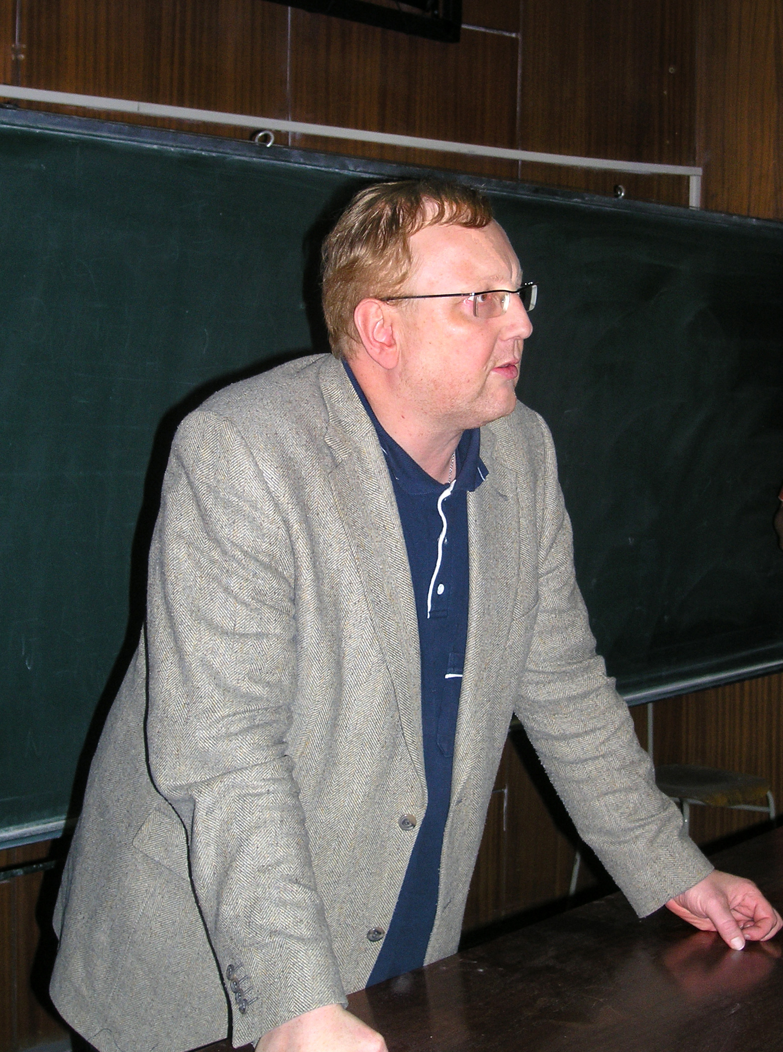 Czech astronomer Miloš Tichý